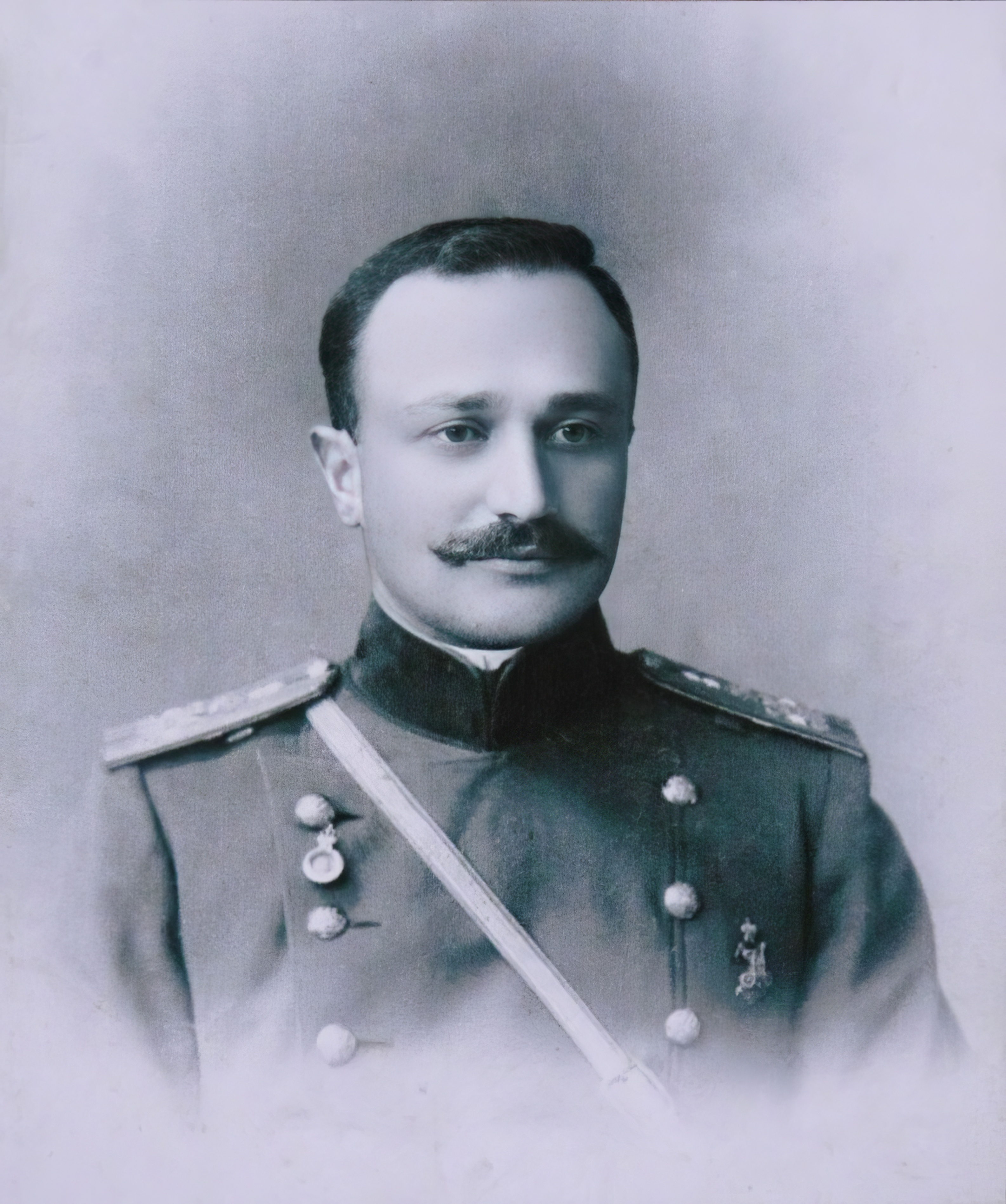 Christophor Araratov in Russian Empire Uniform